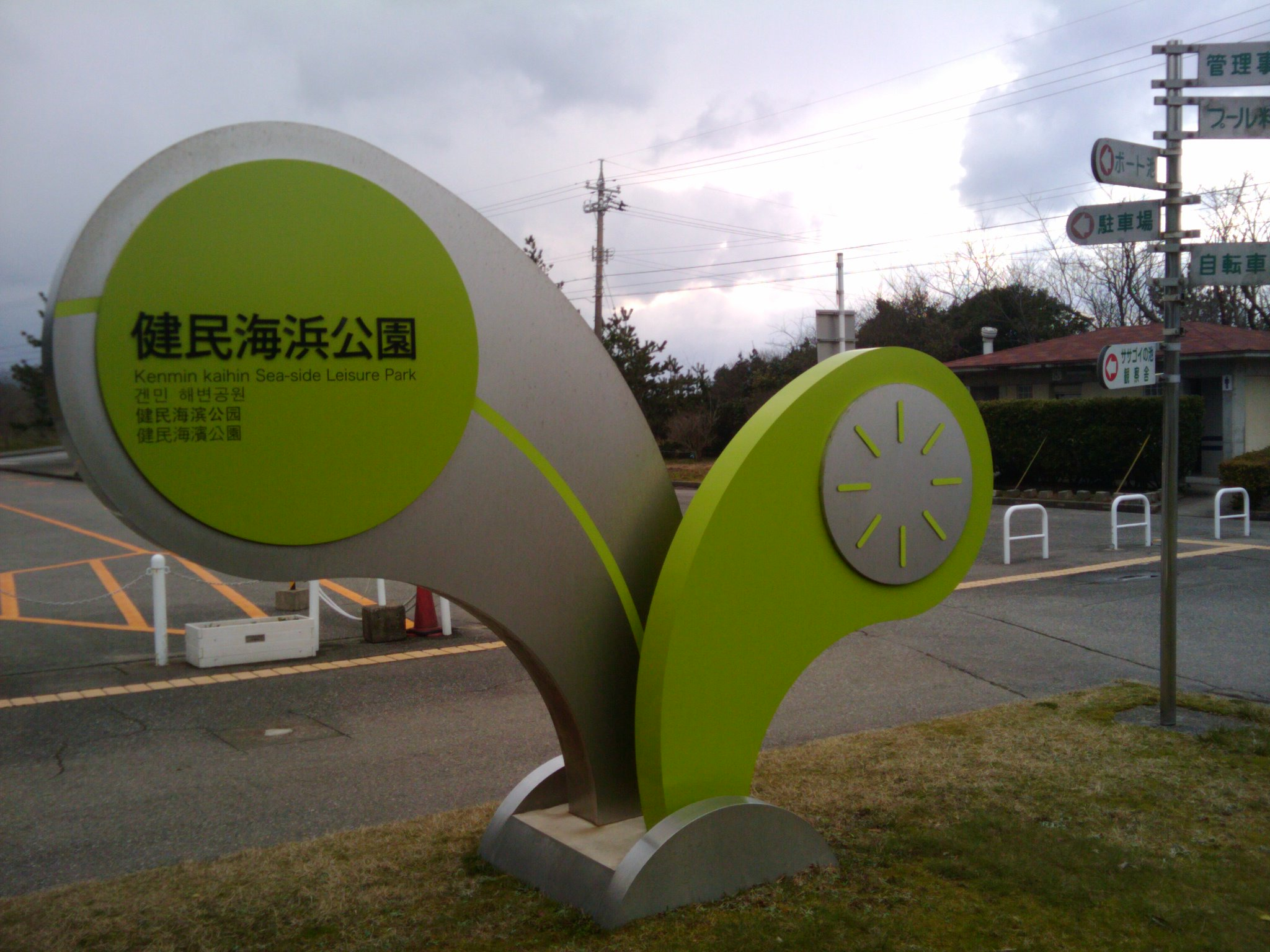 Kenminkaihin Park (Kanazawa, Ishikawa, Japan)